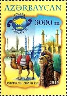 The Great Silk Way.